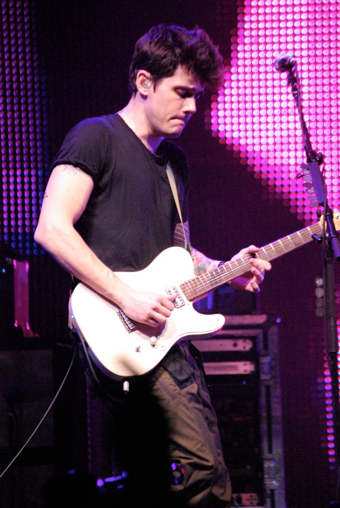 John Mayer performing live at State Farm Arena in Atlanta, Georgia in March 17, 2010. The concert was part of the Battle Studies World Tour.